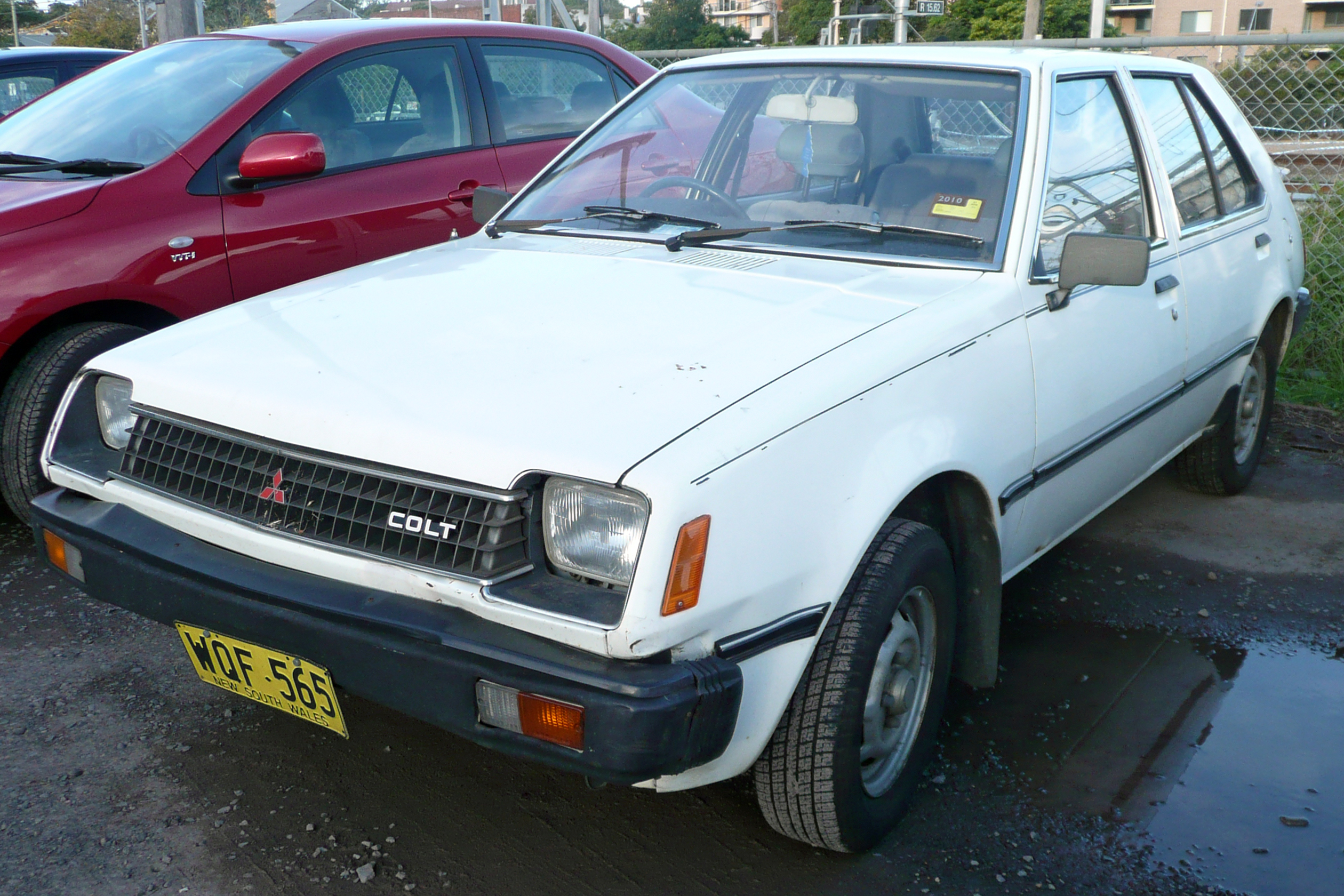 1982 Mitsubishi Colt (RA) GLX 5-door hatchback. Photographed in Sutherland, New South Wales, Australia.